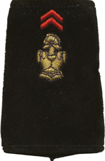 Shoulder sleeve of Military Engineering (France).